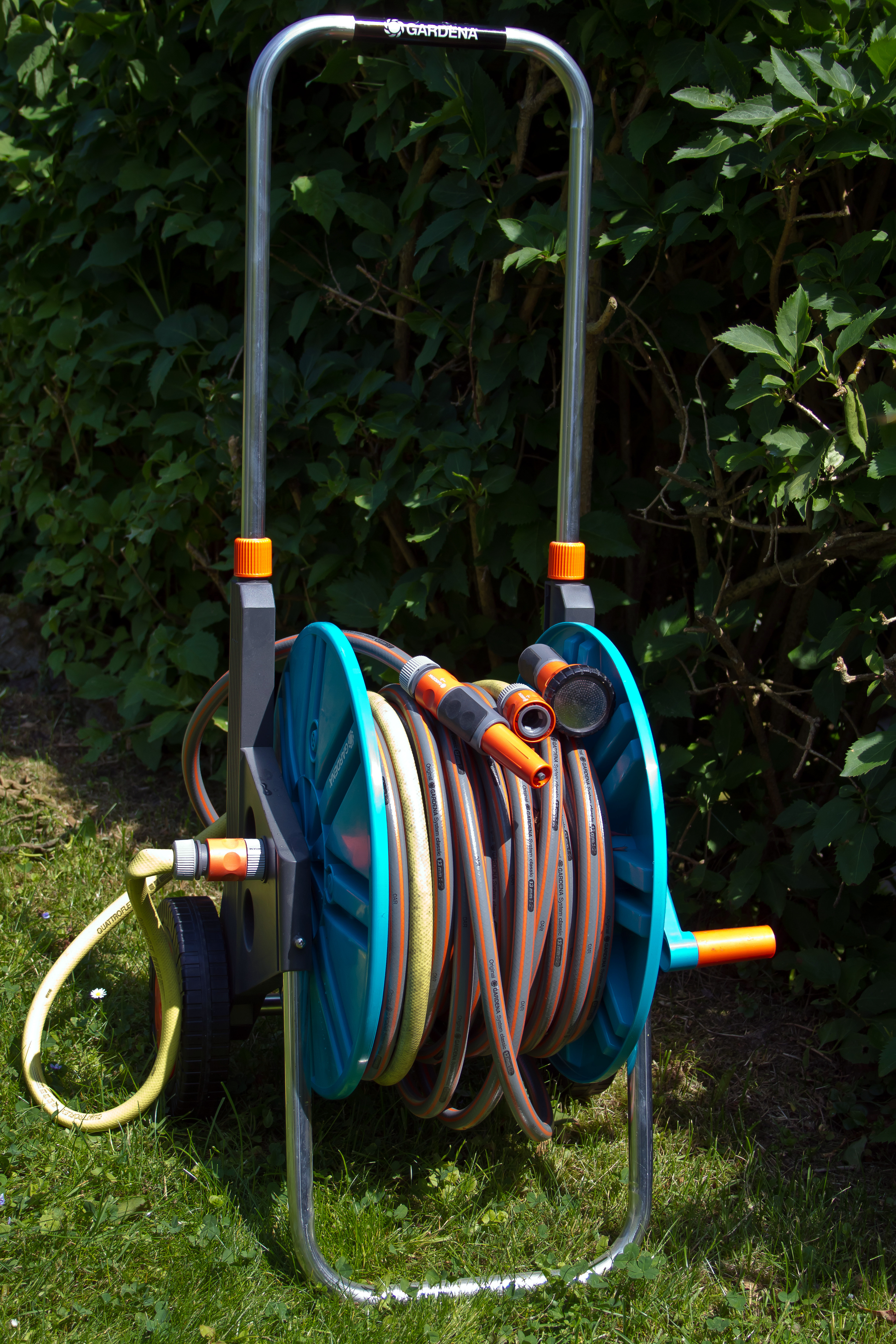 Garden hose reel